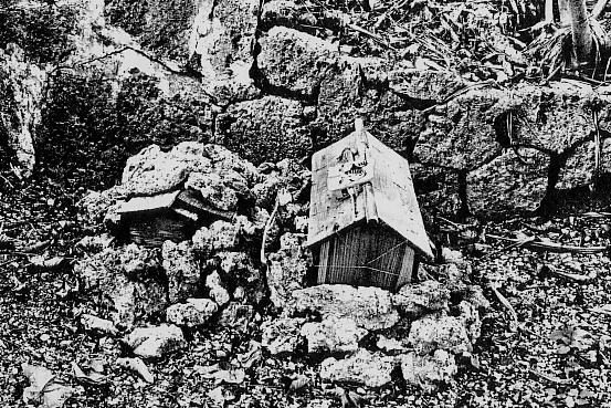 Kudaka Island Tomb in Pre-war Showa era